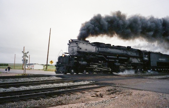 Union Pacific Railroad locomotive number 3985